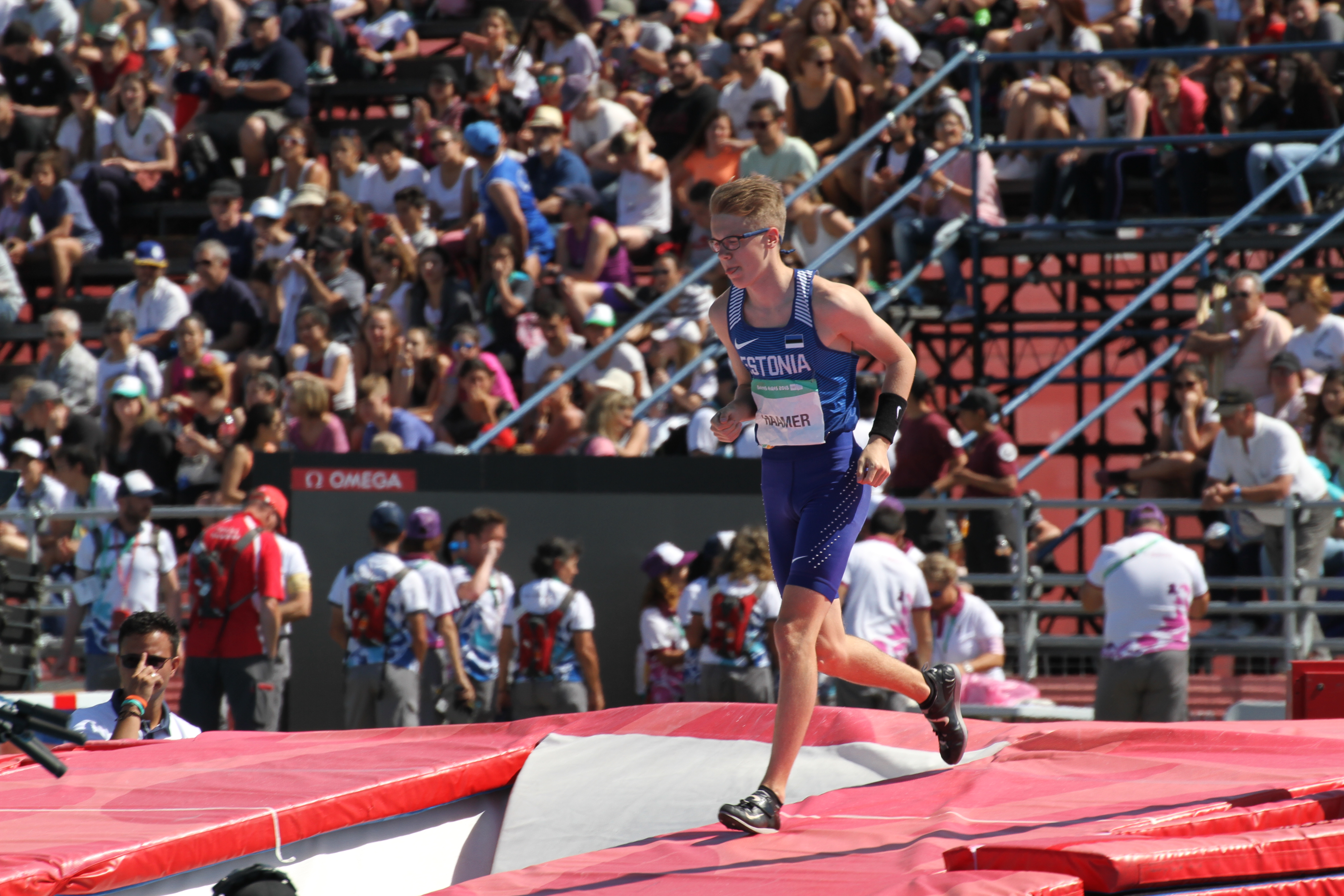 Pole Vault at the 2018 Summer Youth Olympics. Men's Stage 2